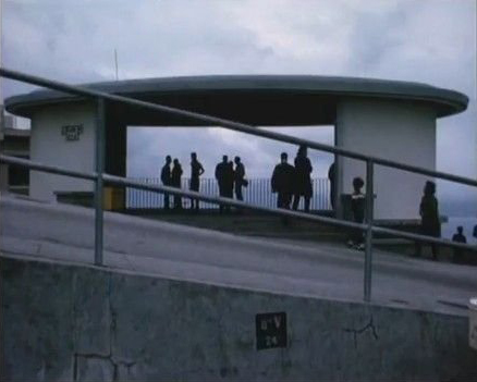 The second generation of Peak Pavilion in the 1960s. It was built after the Second War War in 1950 and used until 1971. It was later replaced by the Lo Fung Tang (1st Generation Peak Tower) in 1972.